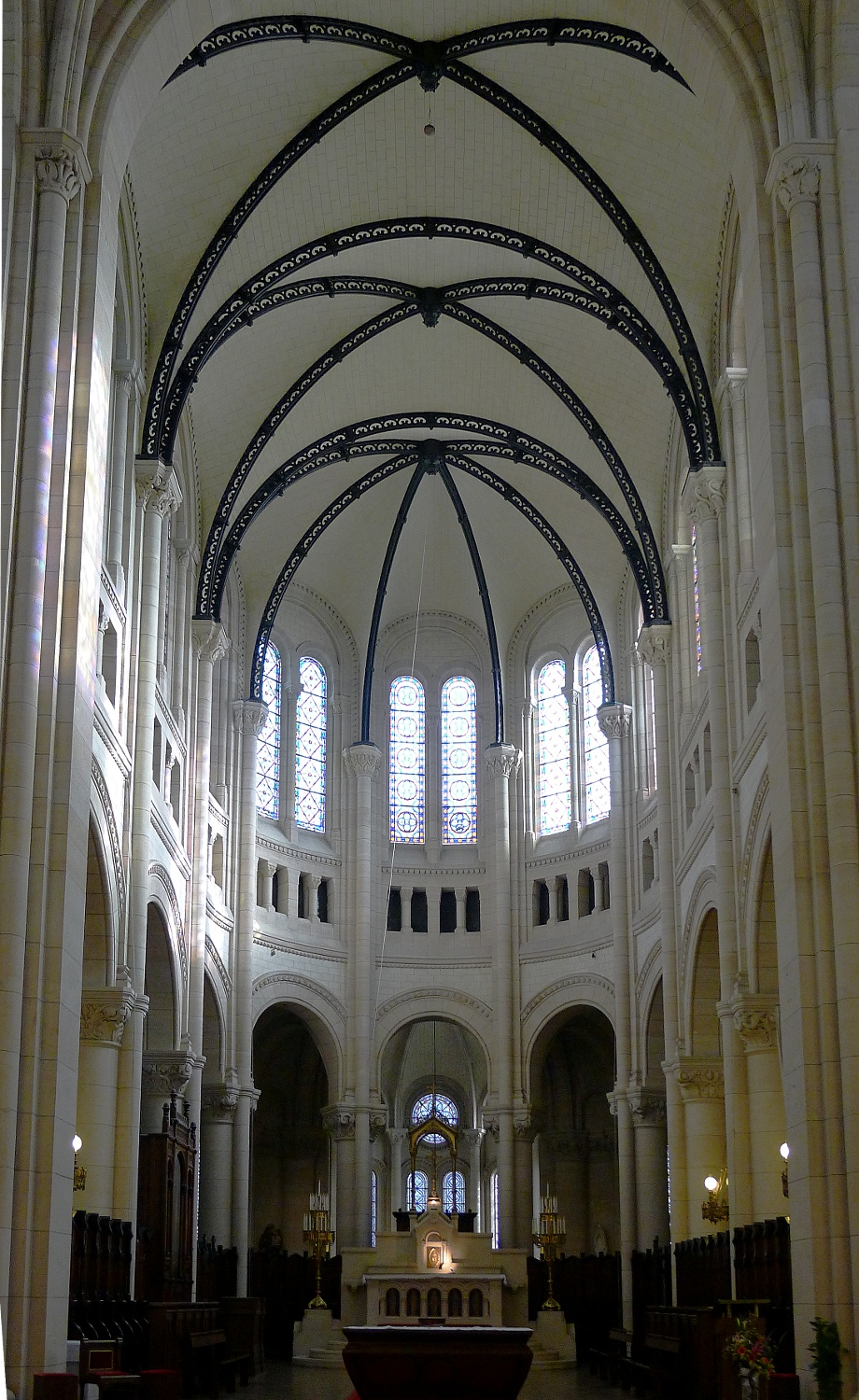 Notre-Dame-de-la-Croix de Ménilmontant church- Paris